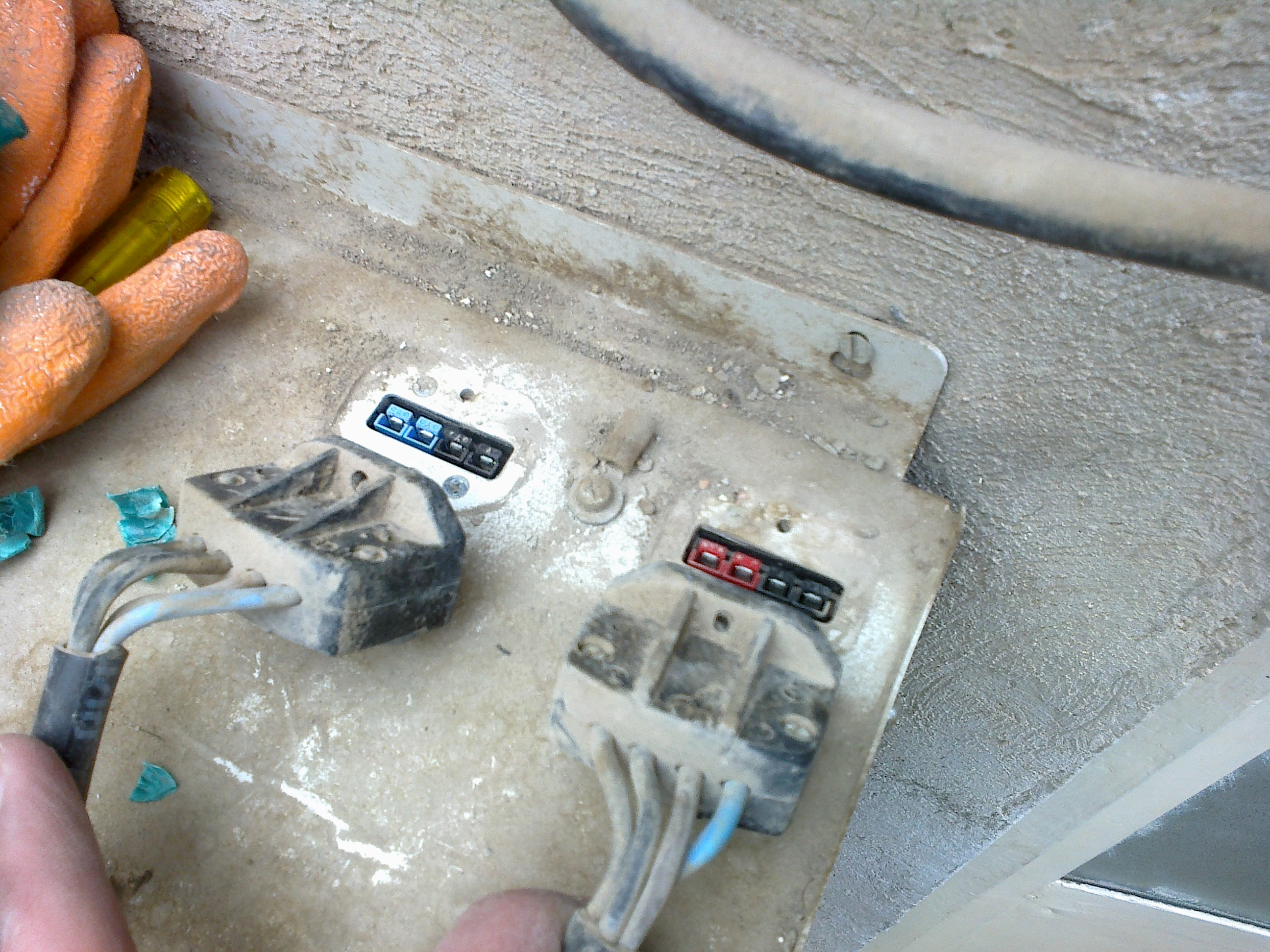 Input and output of a 220v - 6kw stabilizer and protector transformer. (To avoid electrical two-phased current of thunderbolt it is very important to connect the ports correctly)